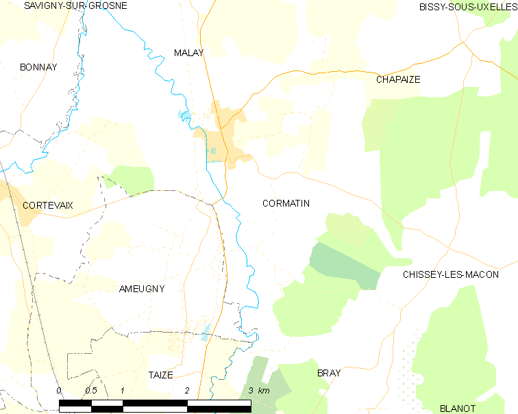 Map of French municipality